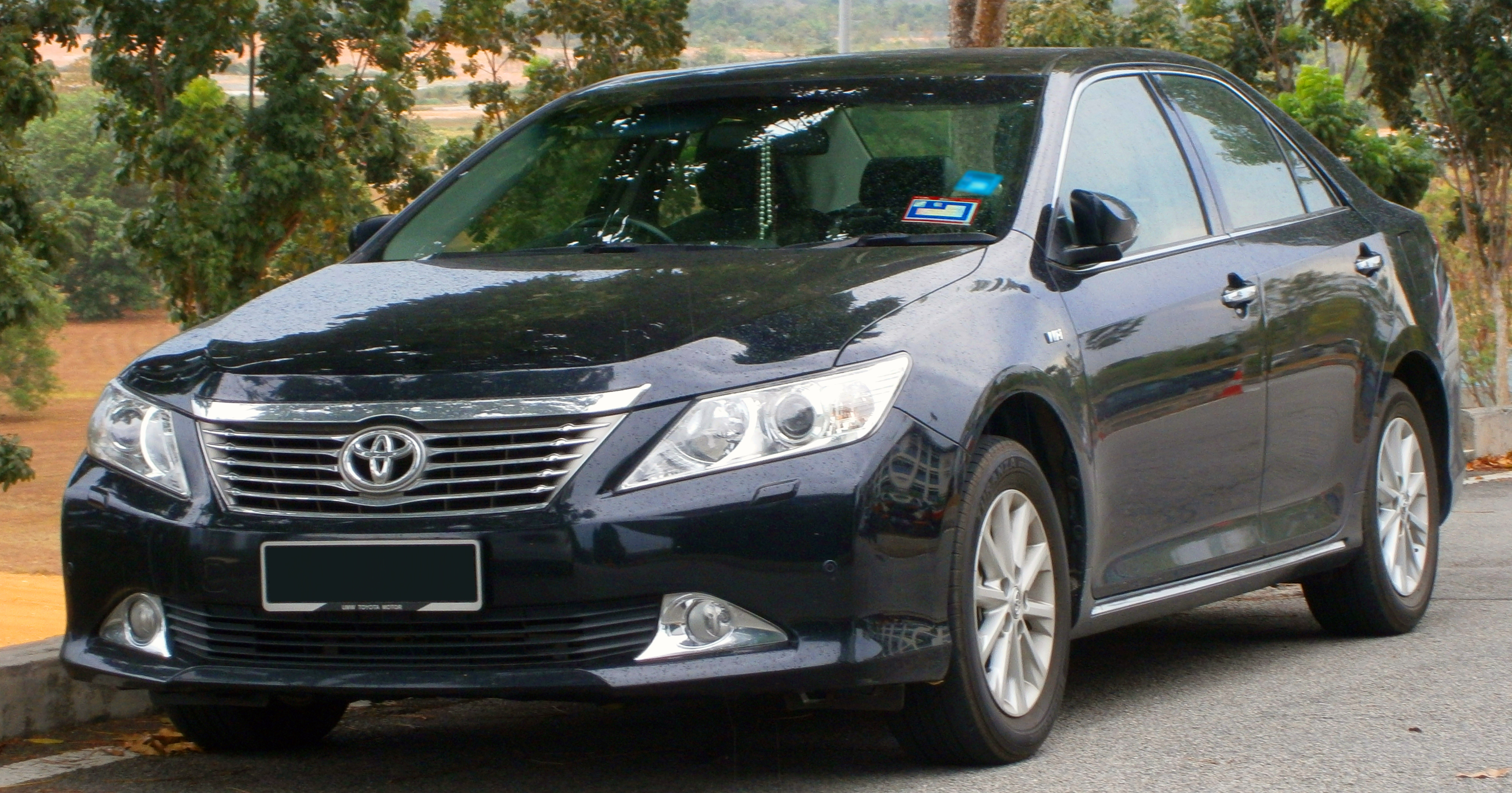 2012 Toyota Camry 2.0G in Cyberjaya, Malaysia. Colour : Attitude Black Designed in Japan , Assembled in Malaysia